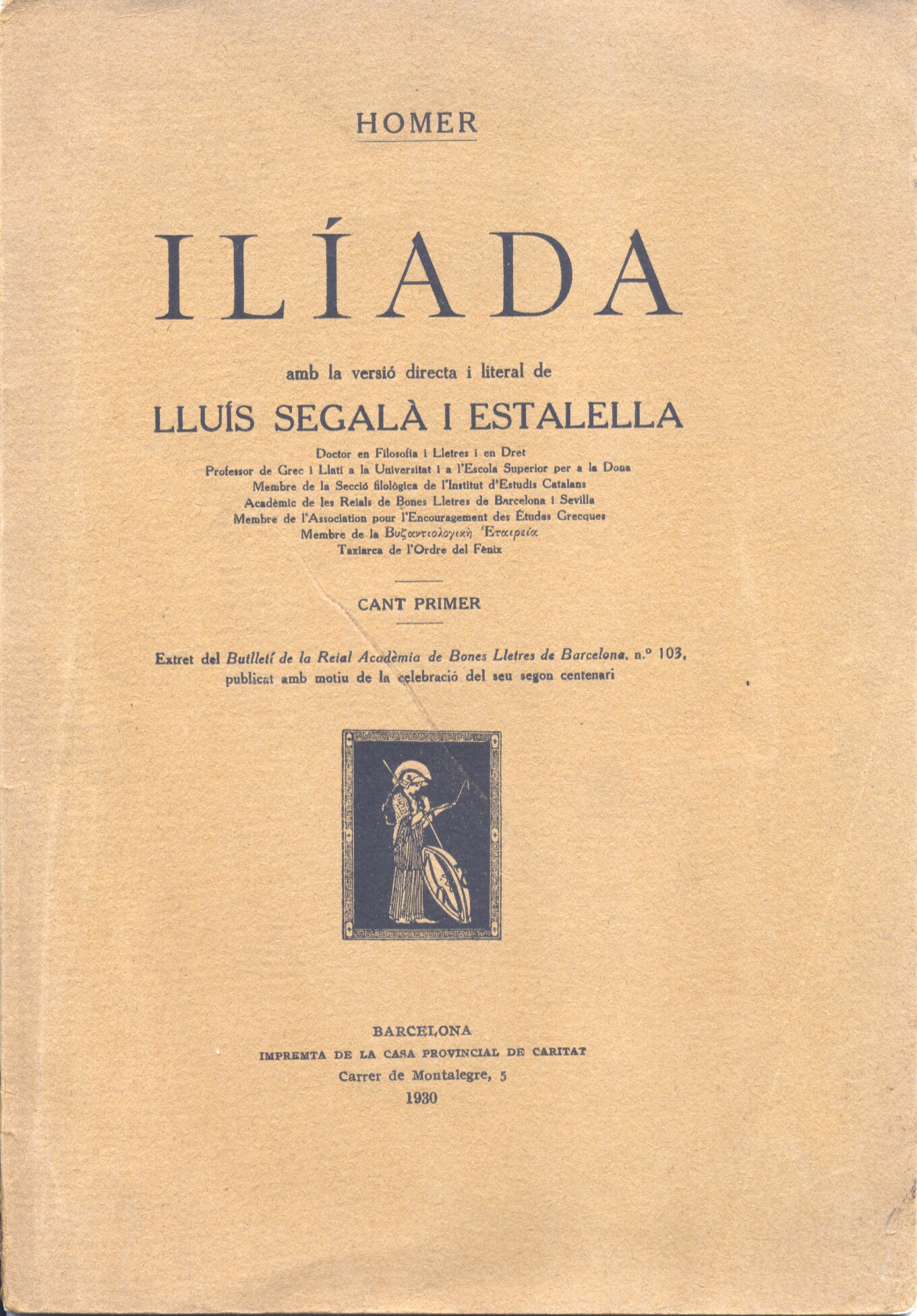 Own picture of the book Ilíada (Homer), cant primer, translation by Lluís Segalà i Estalella